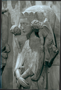 Tomb of Leonor of Portugal, Queen of Aragon